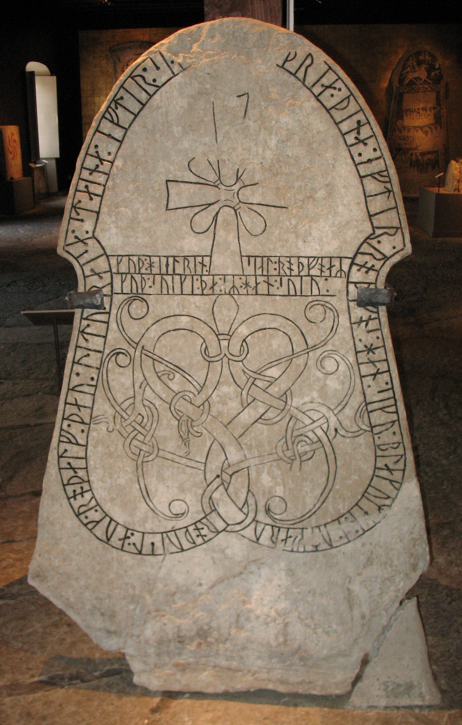 The 11th-century runestone G134 referring to Blakumen - possibly Vlachs/Romanians (Sjonheim cemetery, Gotland, Sweden)